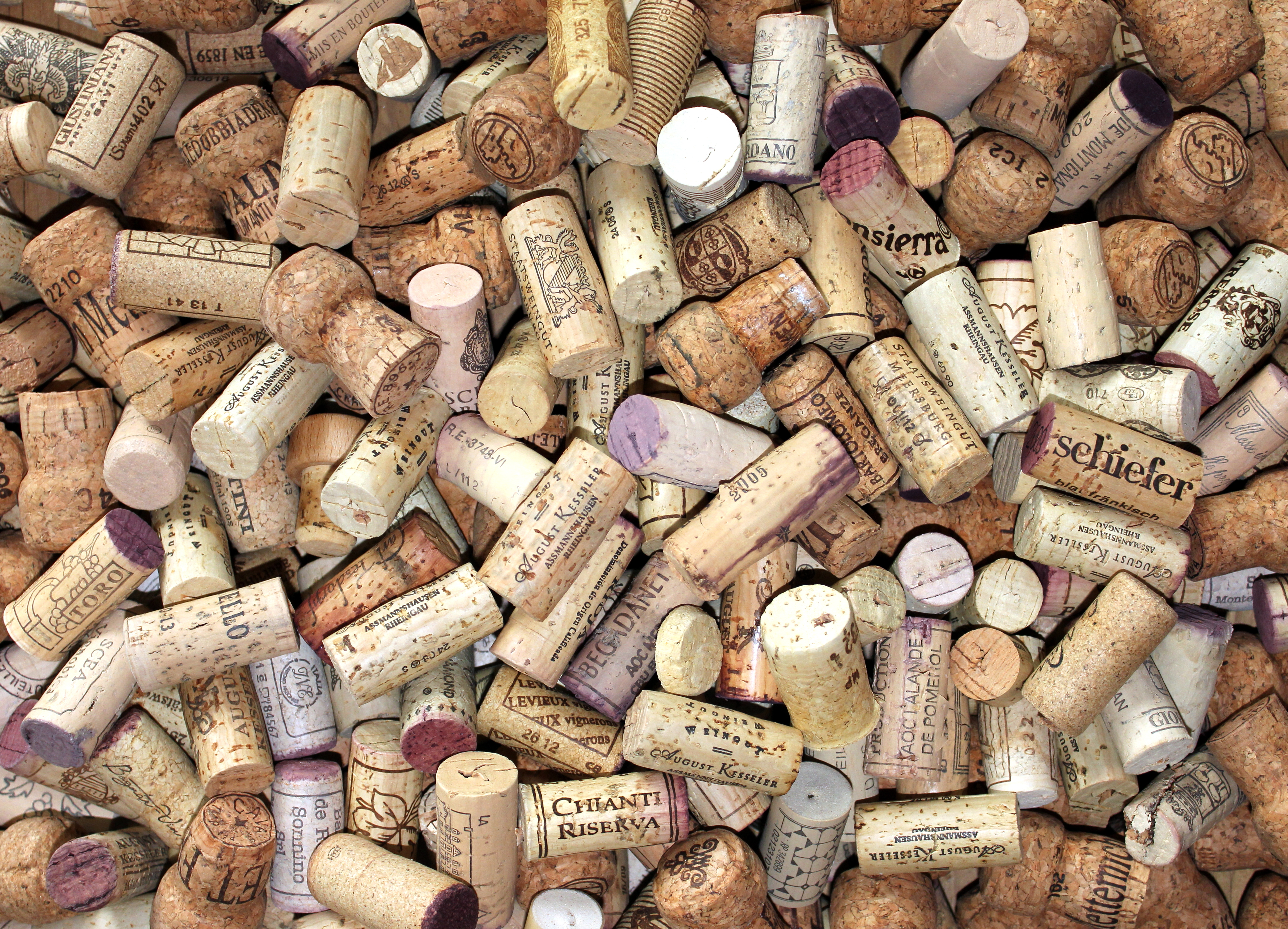 Wine corks